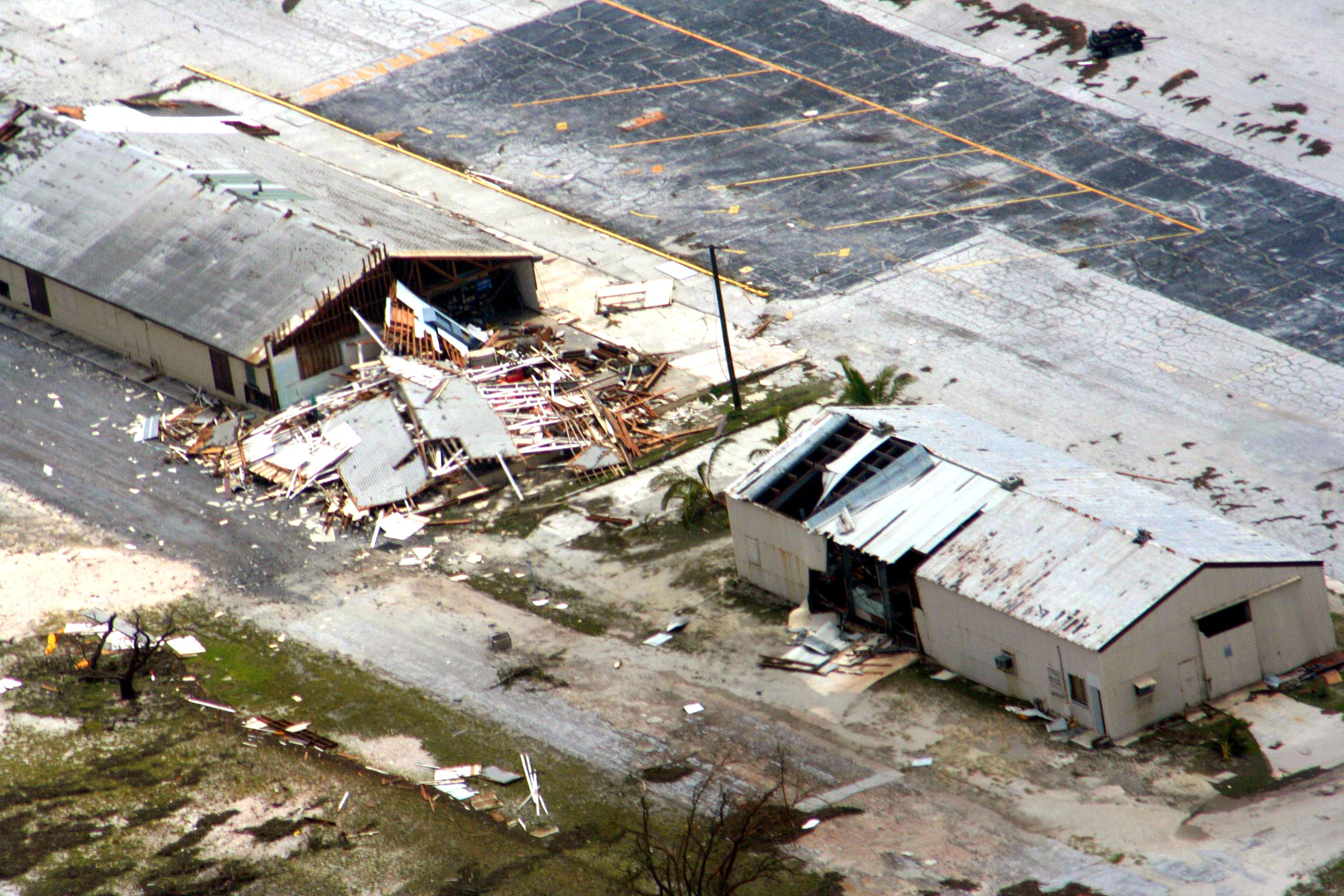 A Sept. 2 flyover of Wake Island by a U.S. Coast Guard aircrew following the passage of Super Typhoon Ioke shows damage to two buildings. Ships carrying response forces are due to arrive at the island soon.